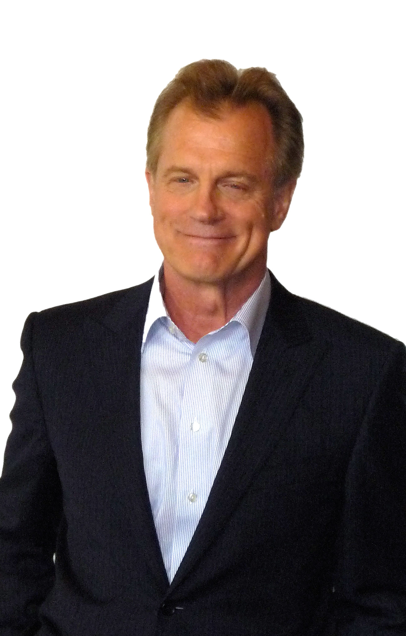 Stephen Collins